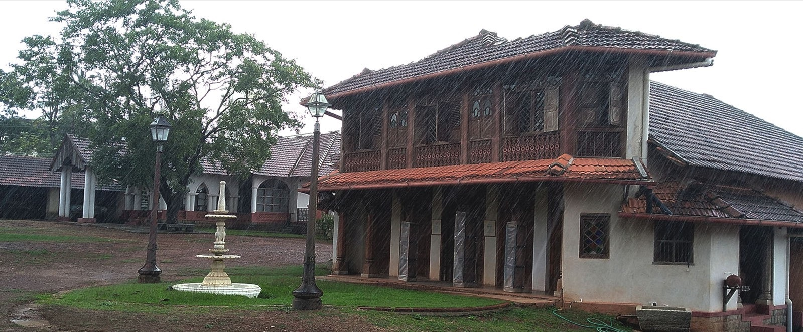 image of heritage village